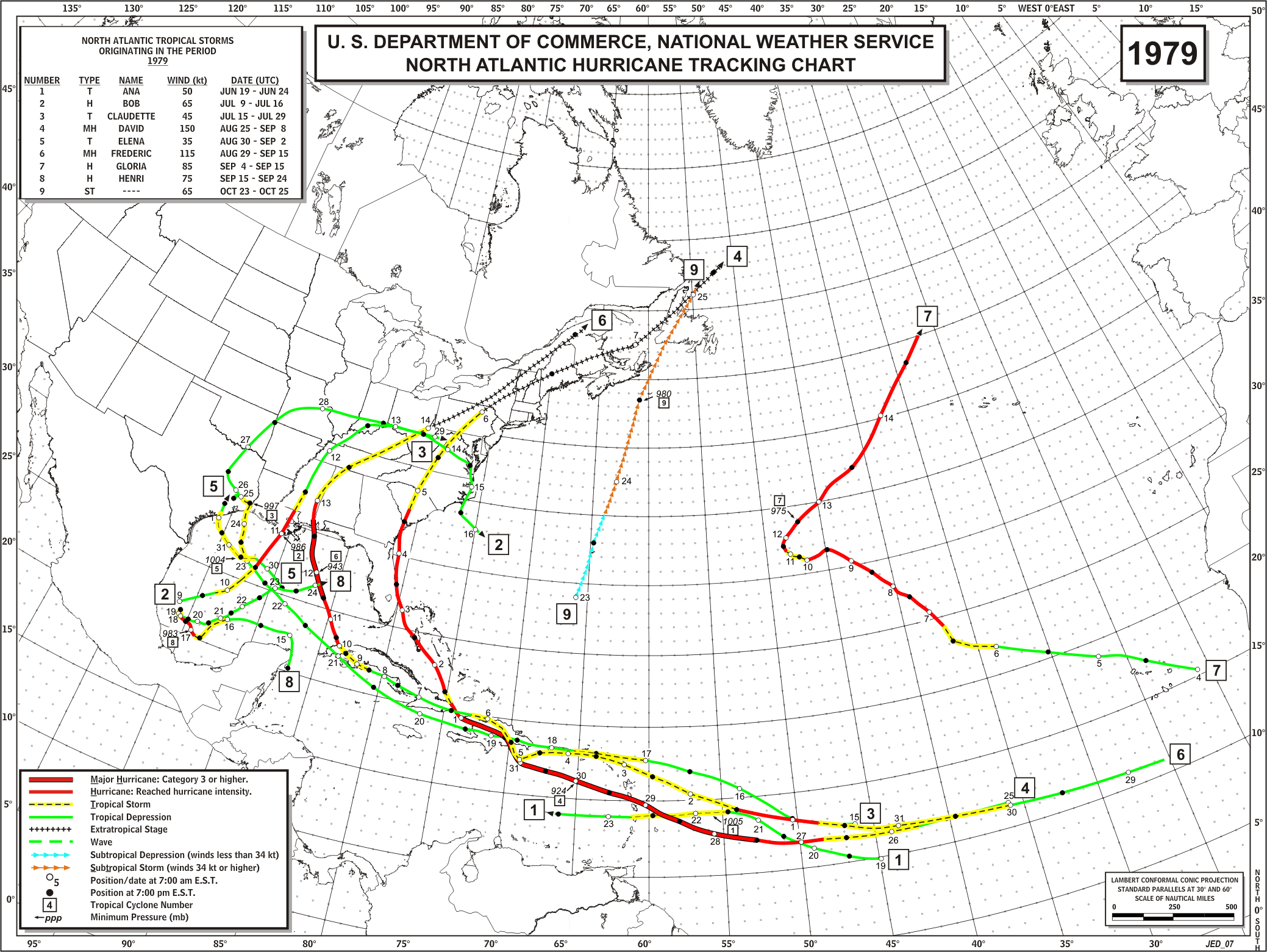 Season summary provided by NOAA of the 1979 Atlantic hurricane season.